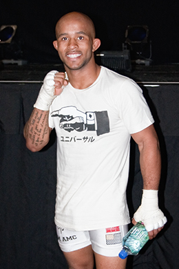 Demetrious Johnson at King Of The Cage "Thunderstruck" at Comcast Arena in Evetett, WA.